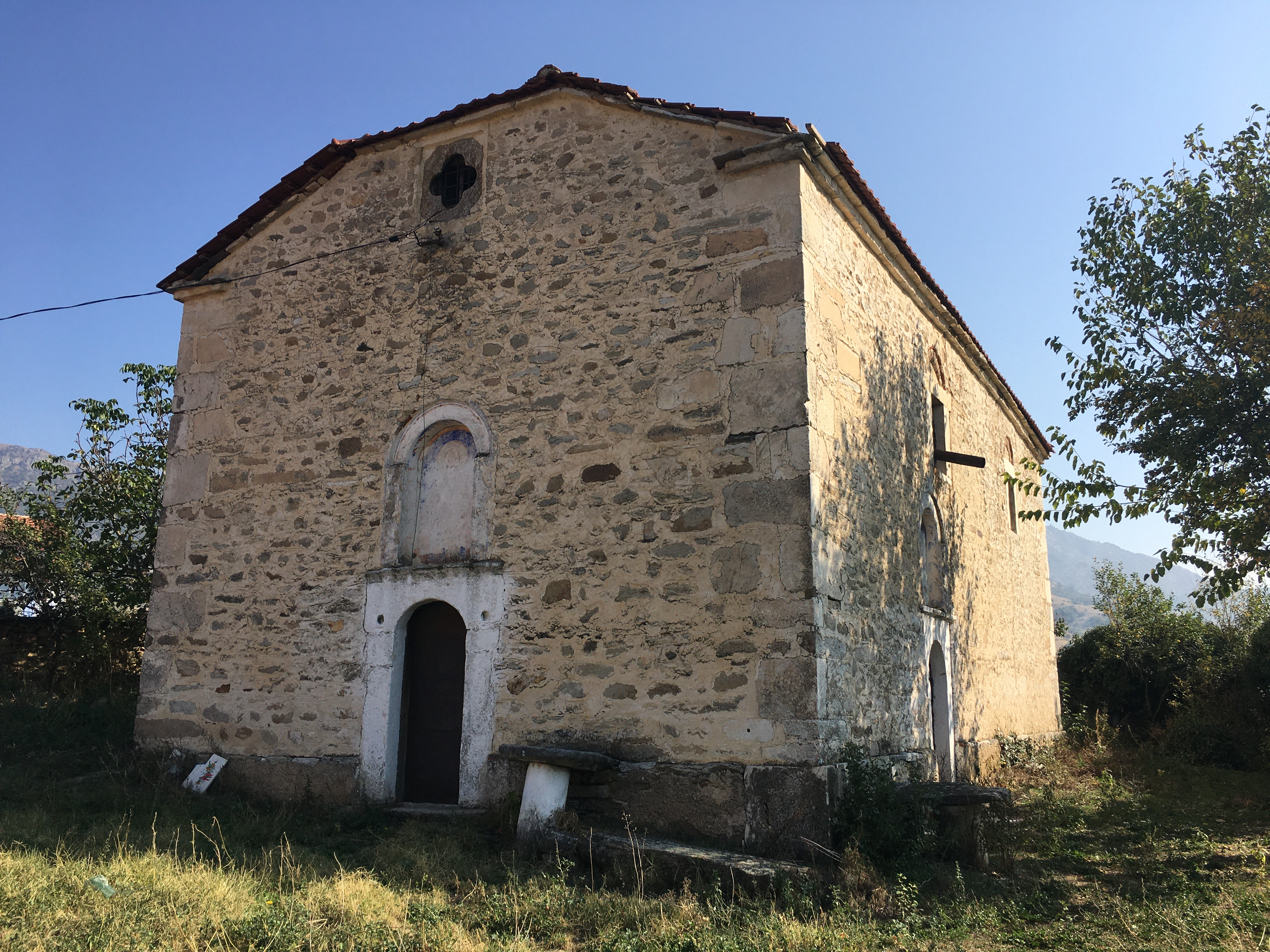 St. Nicholas Church in the village of Nebregovo